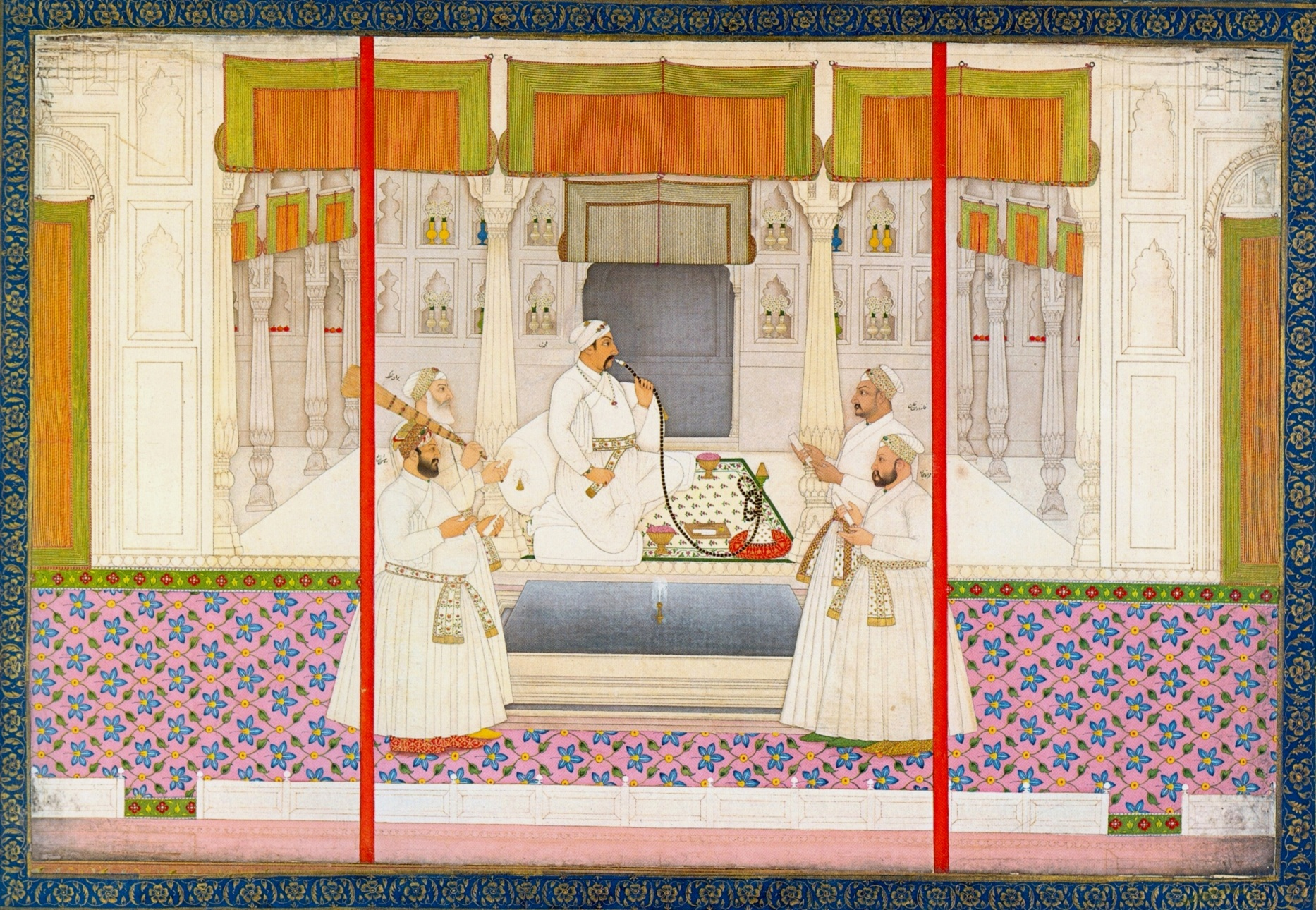 Chitarman II, Emperor Muhammad Shah with four courtiers, smoking huqqah, ca. 1730, Bodleian Library, University of Oxford